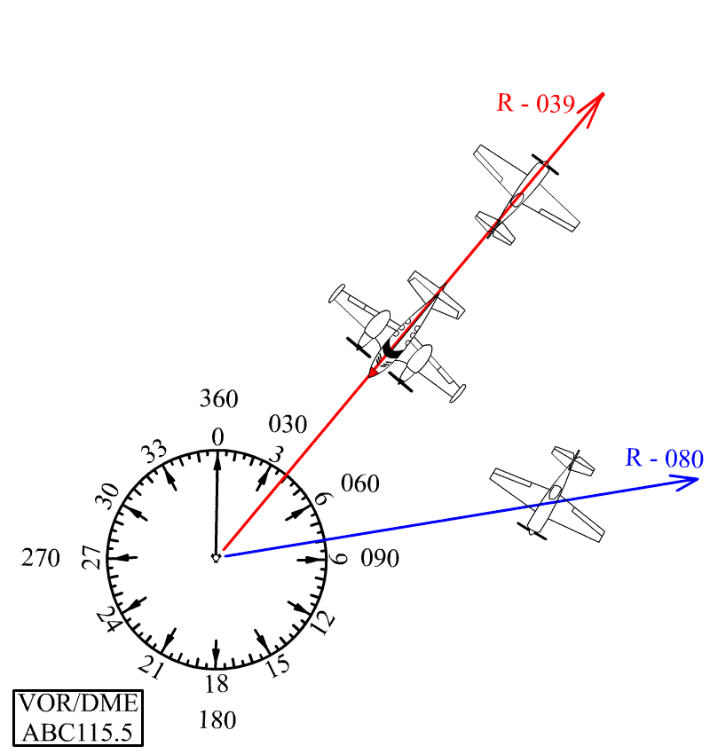 Description about relations of azimuth from a VOR and aircraft heading (other case)